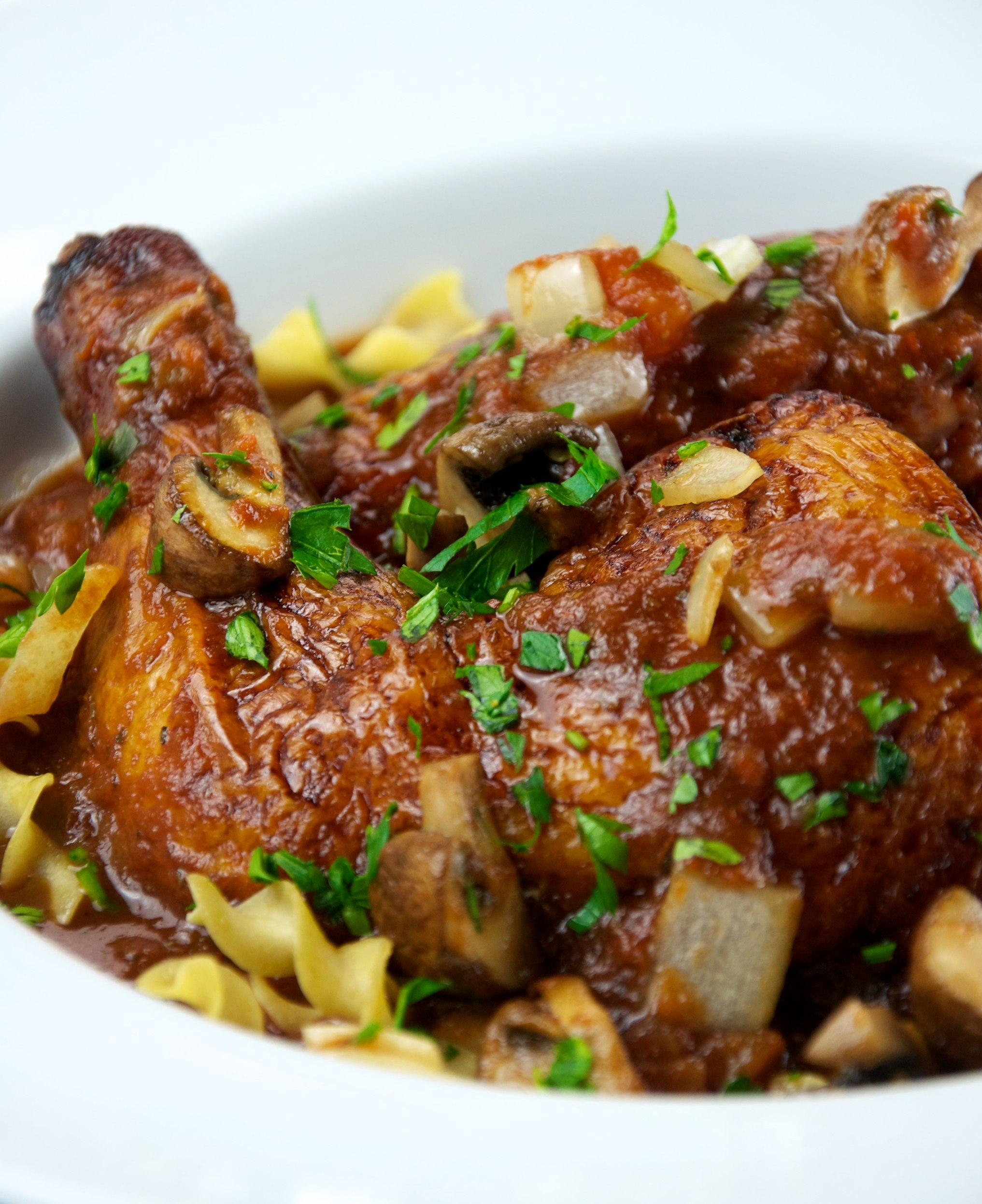 Chicken cacciatore made with mushrooms, onions, and tomatoes, garnished with parsley, and served over pasta noodles. Photographed in the Oakmore neighborhood of Oakland, California, USA.